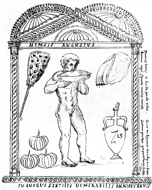 Month of August from in the Chronography of 354 by the 4th century kalligrapher Filocalus. The copies of the original illustrations are pen drawings in a 17th century manuscript from the Barberini collection (Vatican Library, cod. Barberini lat. 2154).